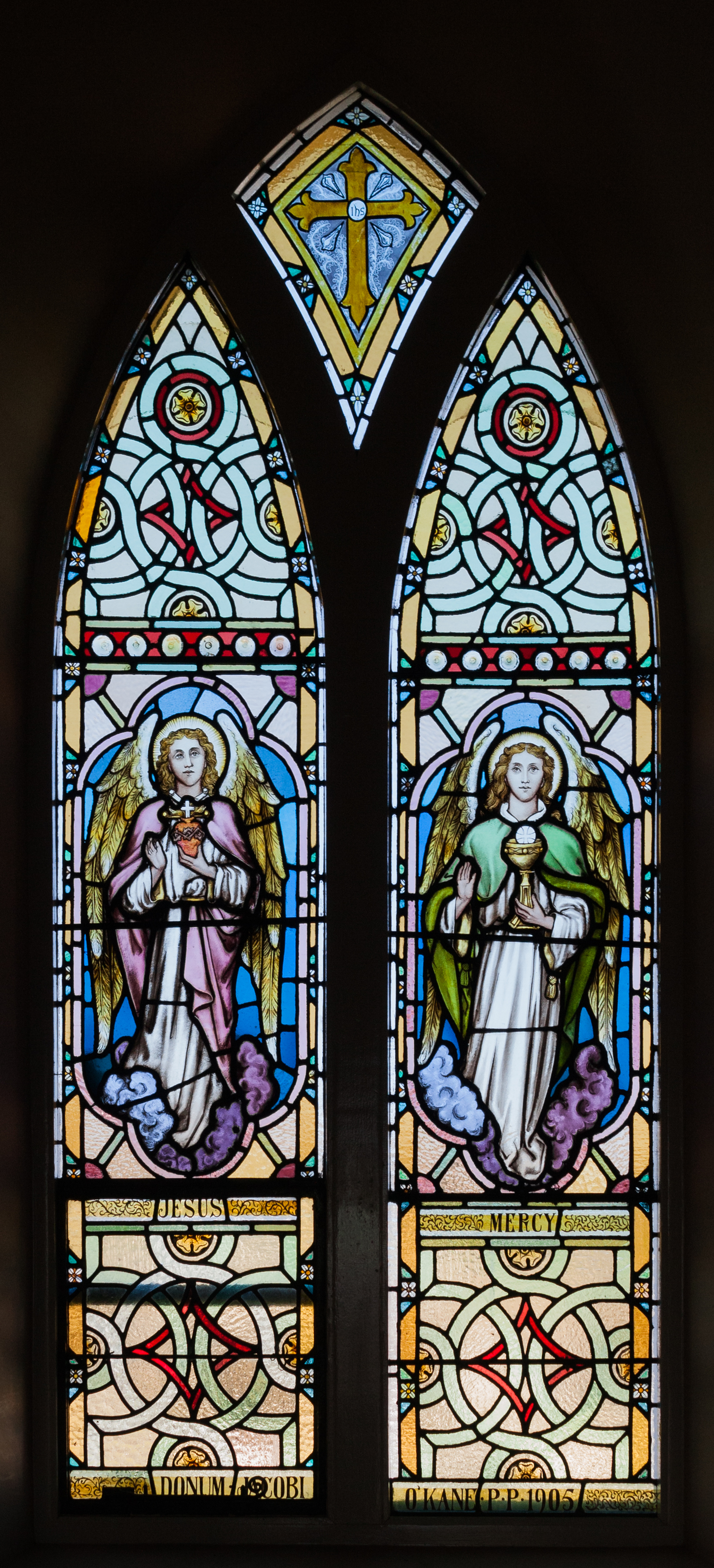 Middle stained glass window in the north wall, depicting two angels holding the Sacred Heart (left) and the Eucharist (right). The inscriptions read Jesus (left) and Mercy (right), and Donum•Jacobi O'Kane•P•P•1905. Rev. James O'Kane (1855–1926) was parish priest from 1903 to 1910. (See Mary Newport et al: St. Patrick's Church Parish of Iskaheen and Upper Moville, 2003, p. 13.) Part of a series where one window is signed by James Watson & Co., Youghal.